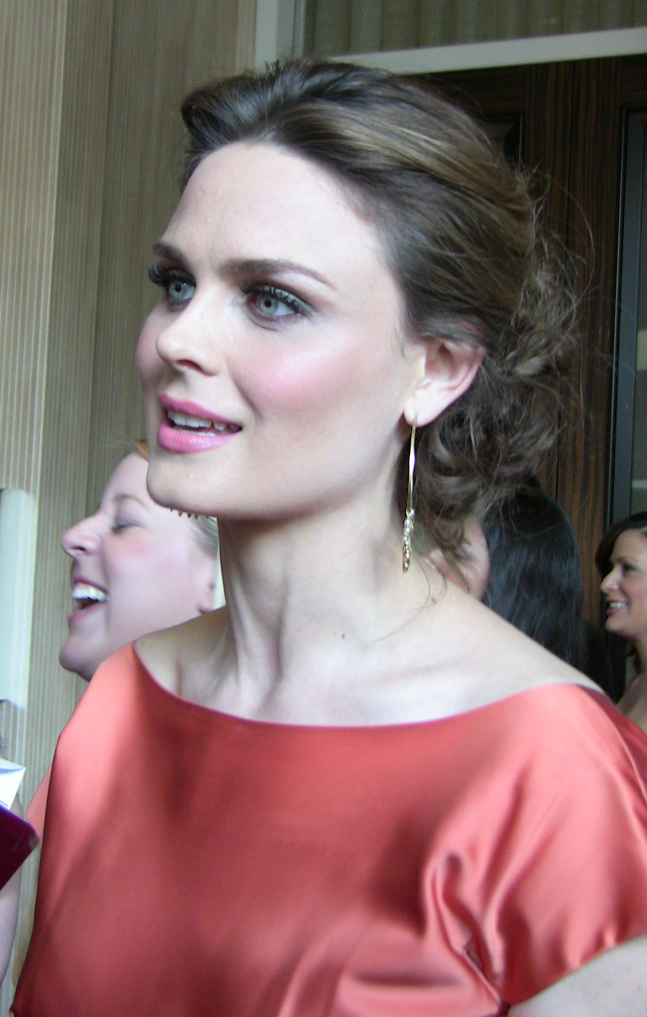 Actress Emily Deschanel at 23rd Genesis Awards - Beverly Hills, California.